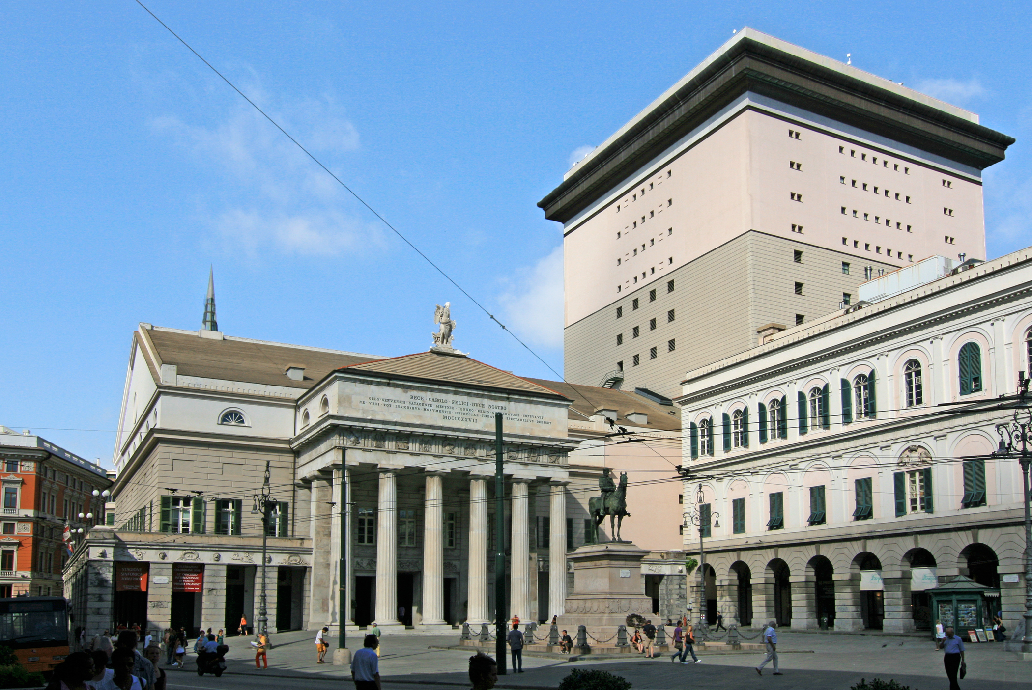 The Carlo Felice theater in Genova, Italy.